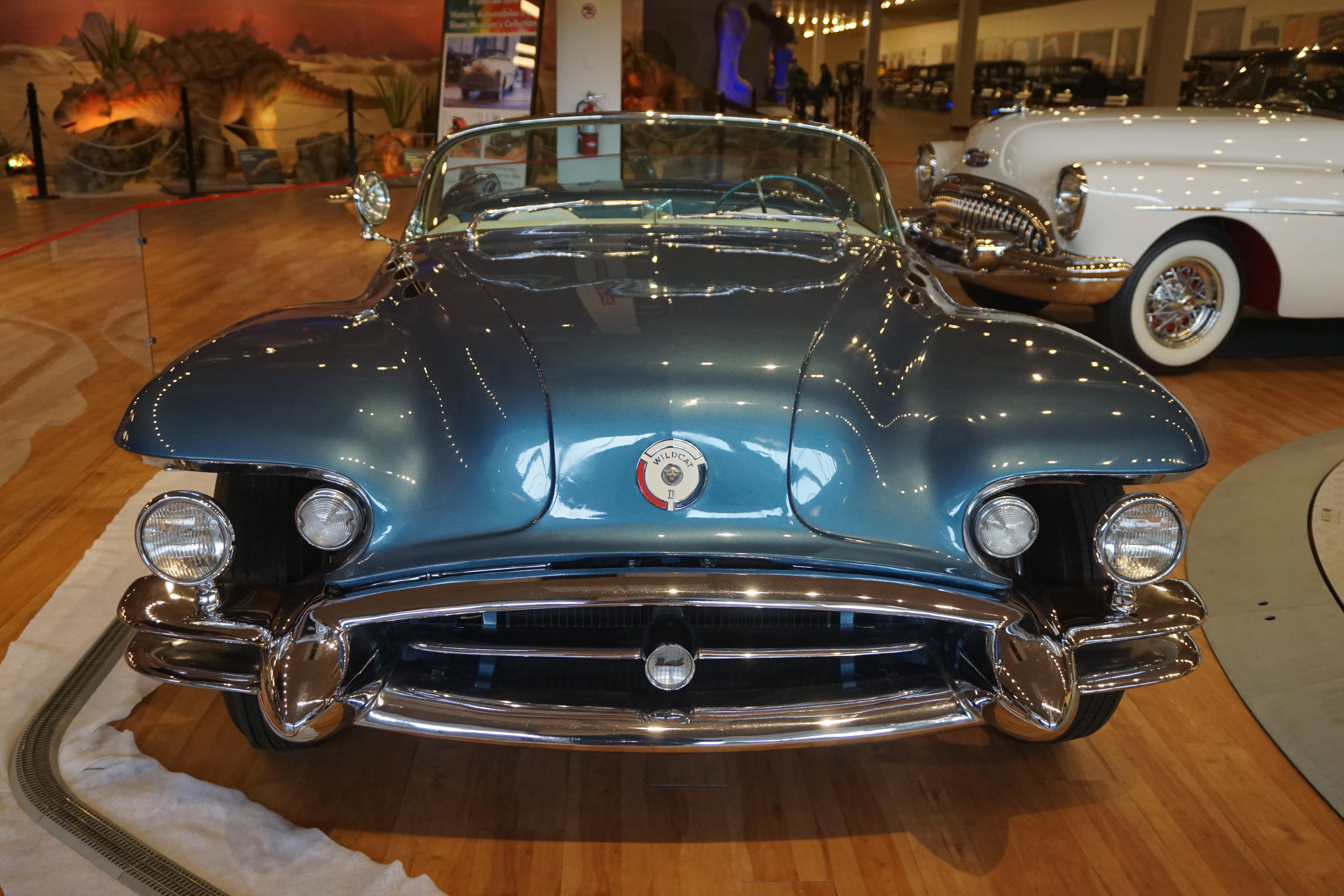 The Buick Wildcat II at the Sloan Museum at Courtland Center in Burton, Michigan (United States).